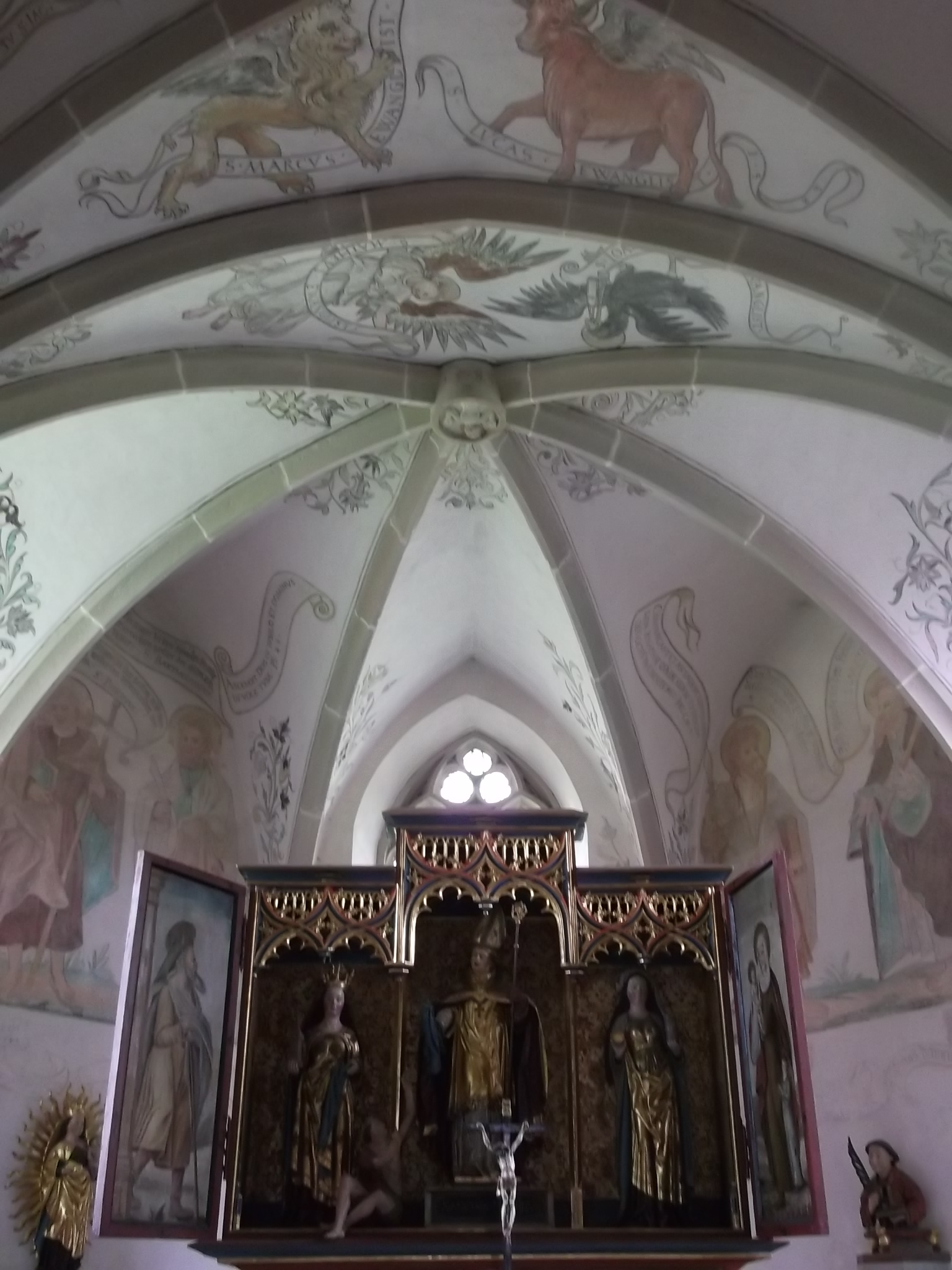 St. Martin auf Kirchbühl, choir, Sempach/Switzerland